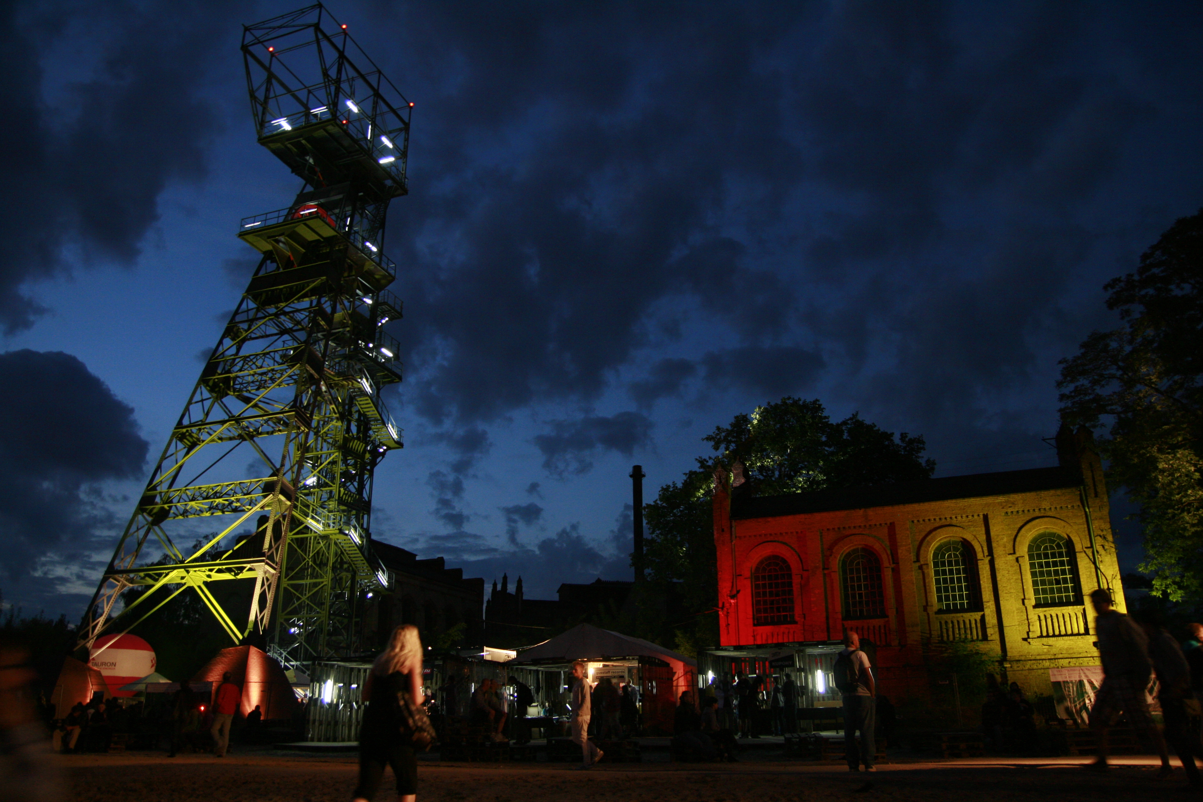 Tauron New Music festival